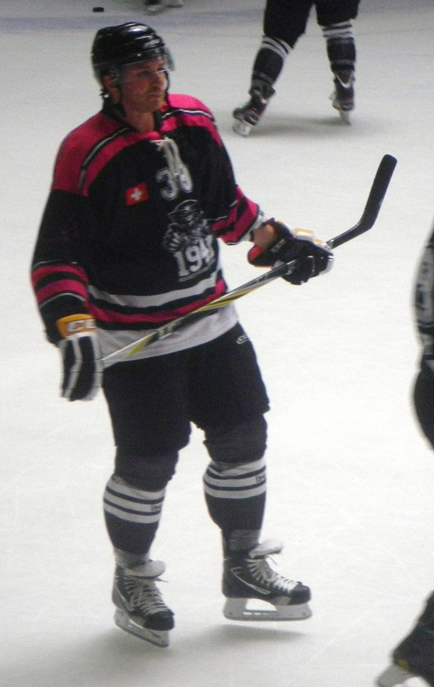 Swiss ice hockey player with HC Lugano.